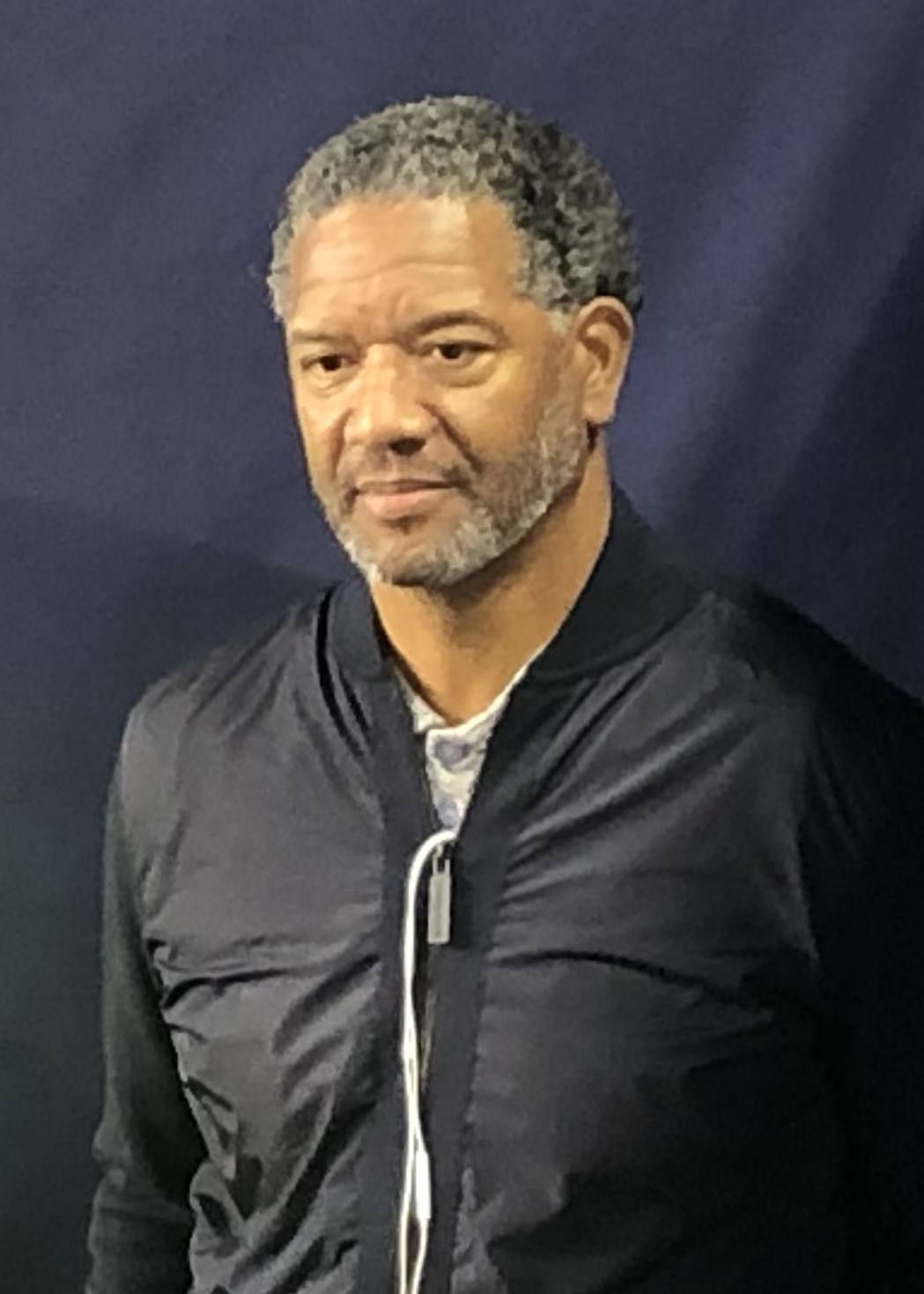 Damon Allen, Canadian Football Hall of Fame Quarterback.